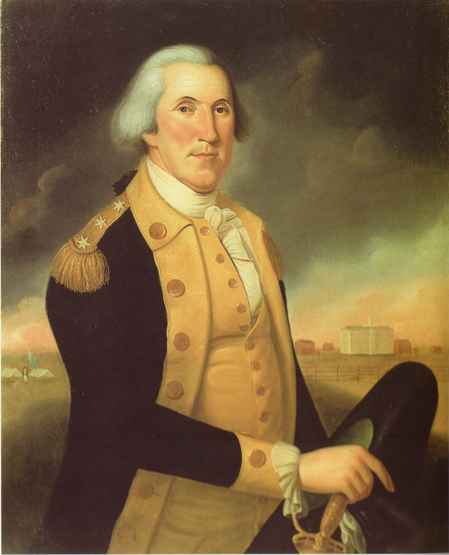 Painting George Washington by Charles Peale Polk